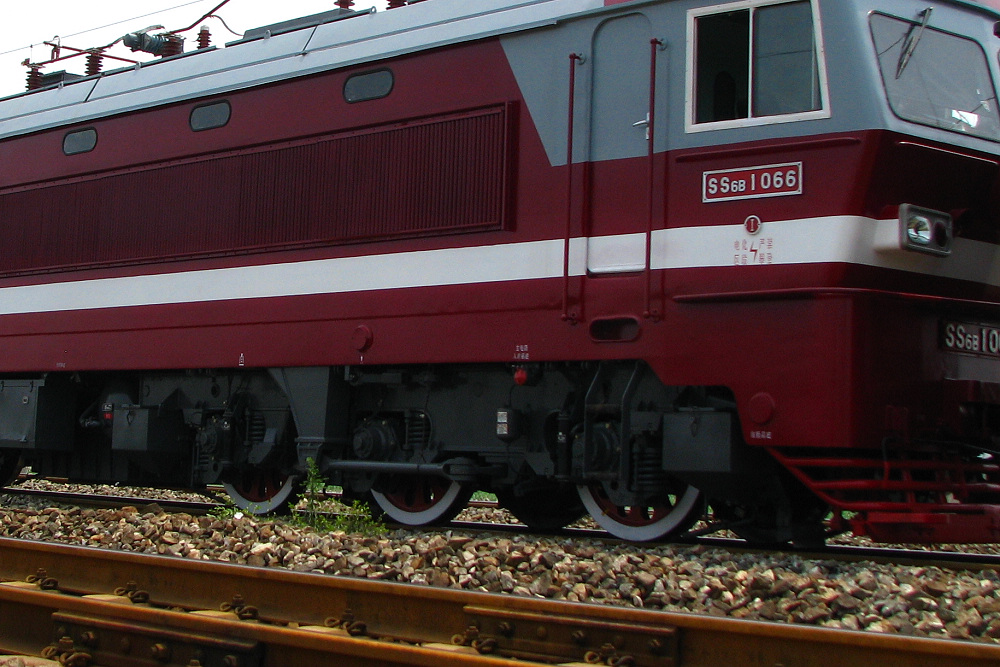 The bogie of a China Railways SS6B electric locomotive